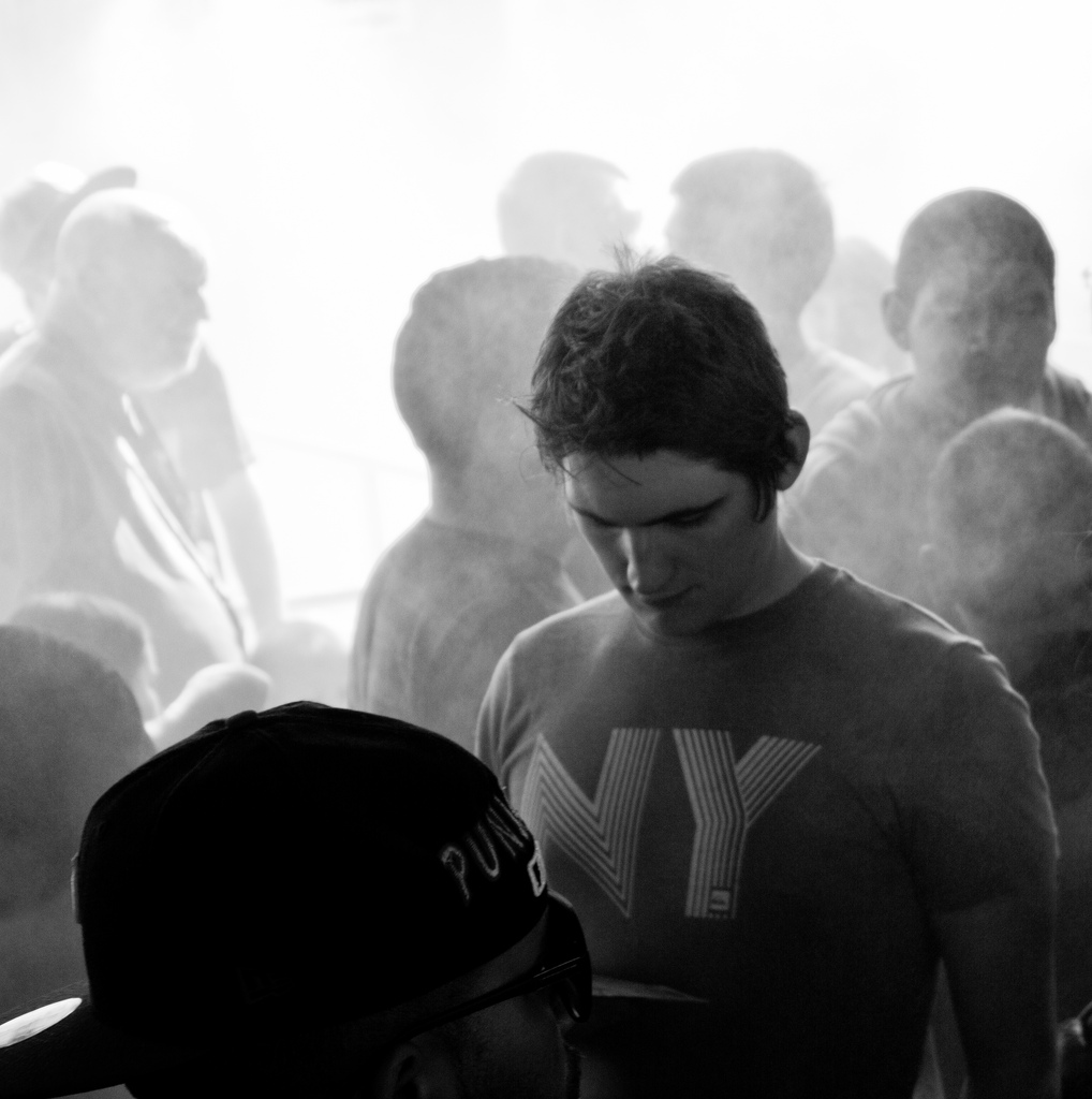 A boy stands in line for the Transformers 3D ride in Universal Studios Hollywood. The "rain" machines used to cool people down cause the lines to develop into fog